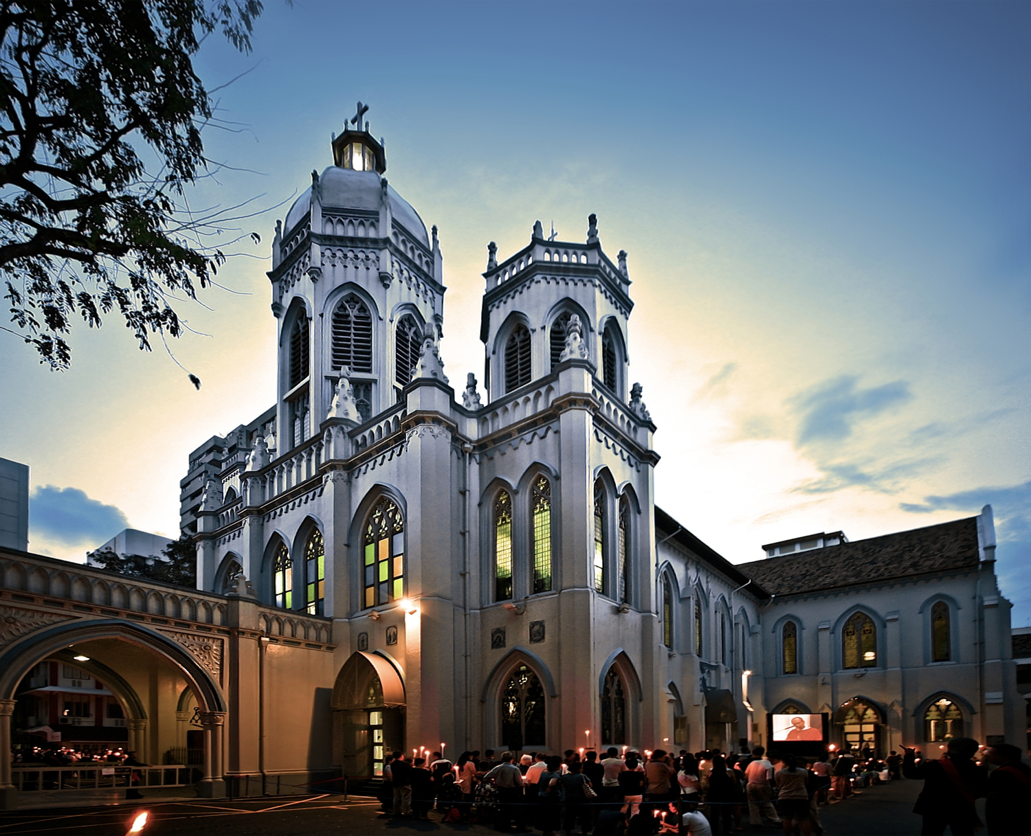 St. Joseph's Church on Victoria Street in Singapore.